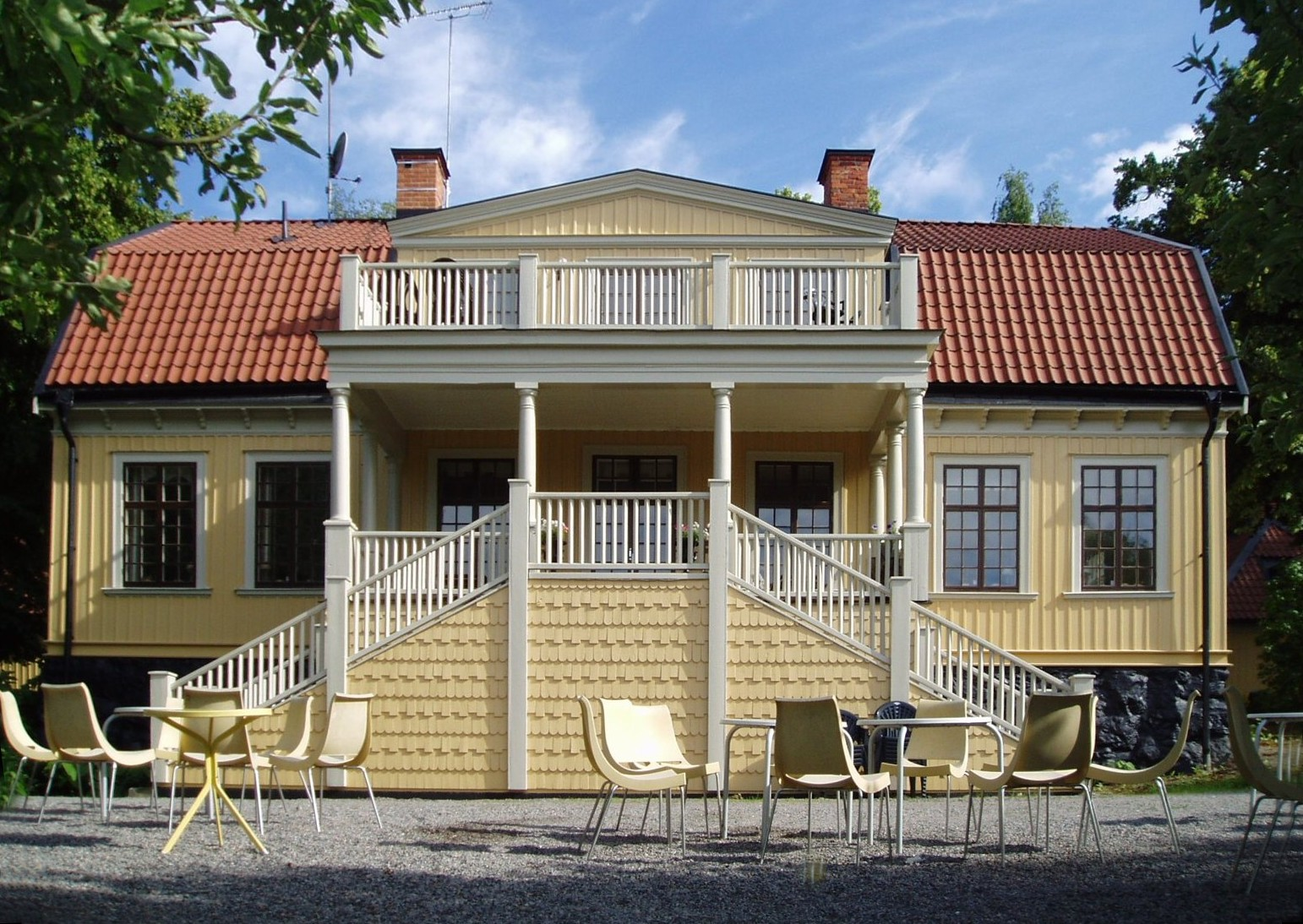 Mansion "Skärholmens gård", Stockholm